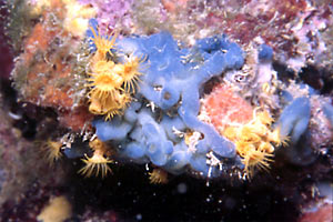 Oscarella lobularis